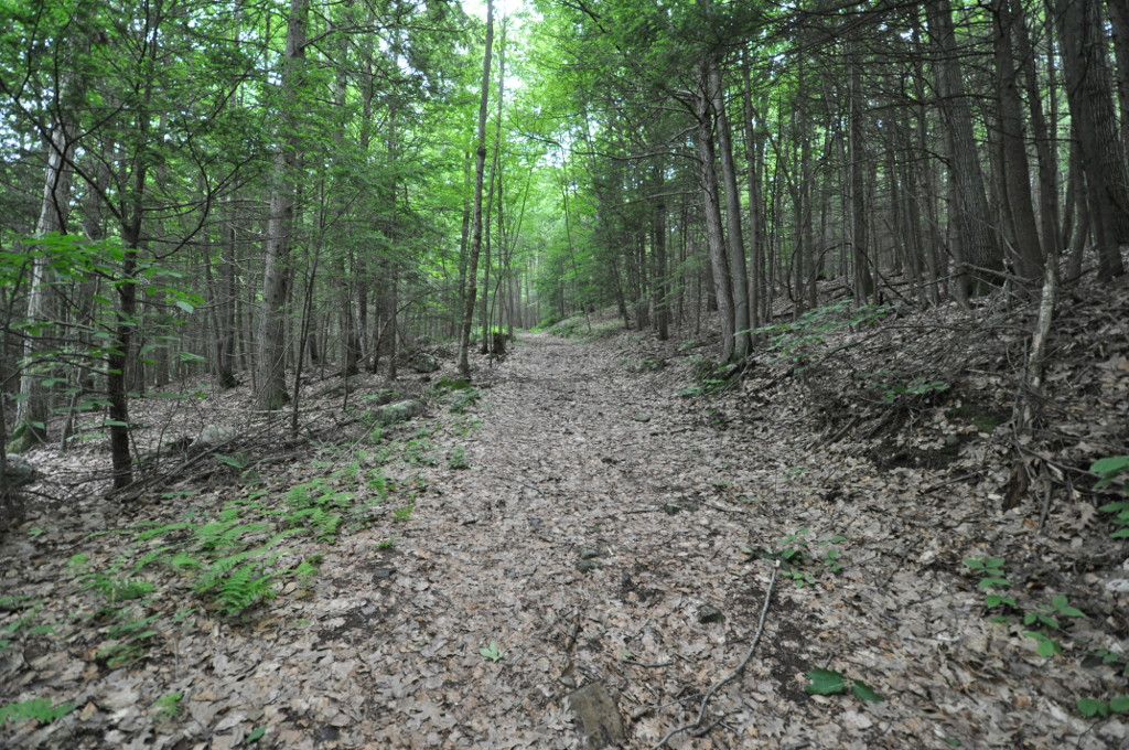 Trail on the south side of Petticoat Hill, Williamsburg, Massachusetts. This property is owned and managed by The Trustees of Reservations, a land conservation group.